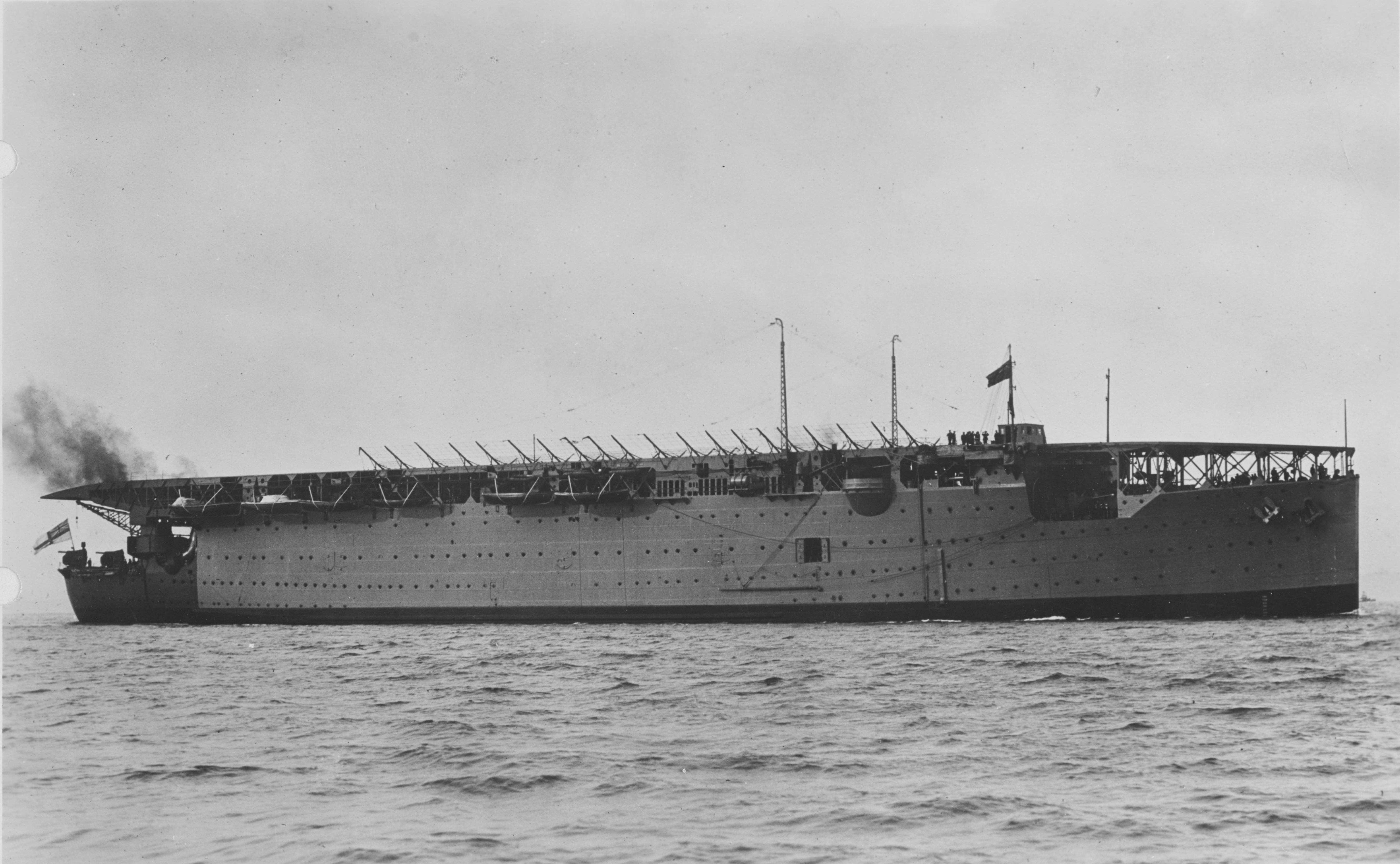 The Royal Navy aircraft carrier HMS Argus (I49) photographed circa the later 1920s, showing modifications made during her 1925-26 refit.